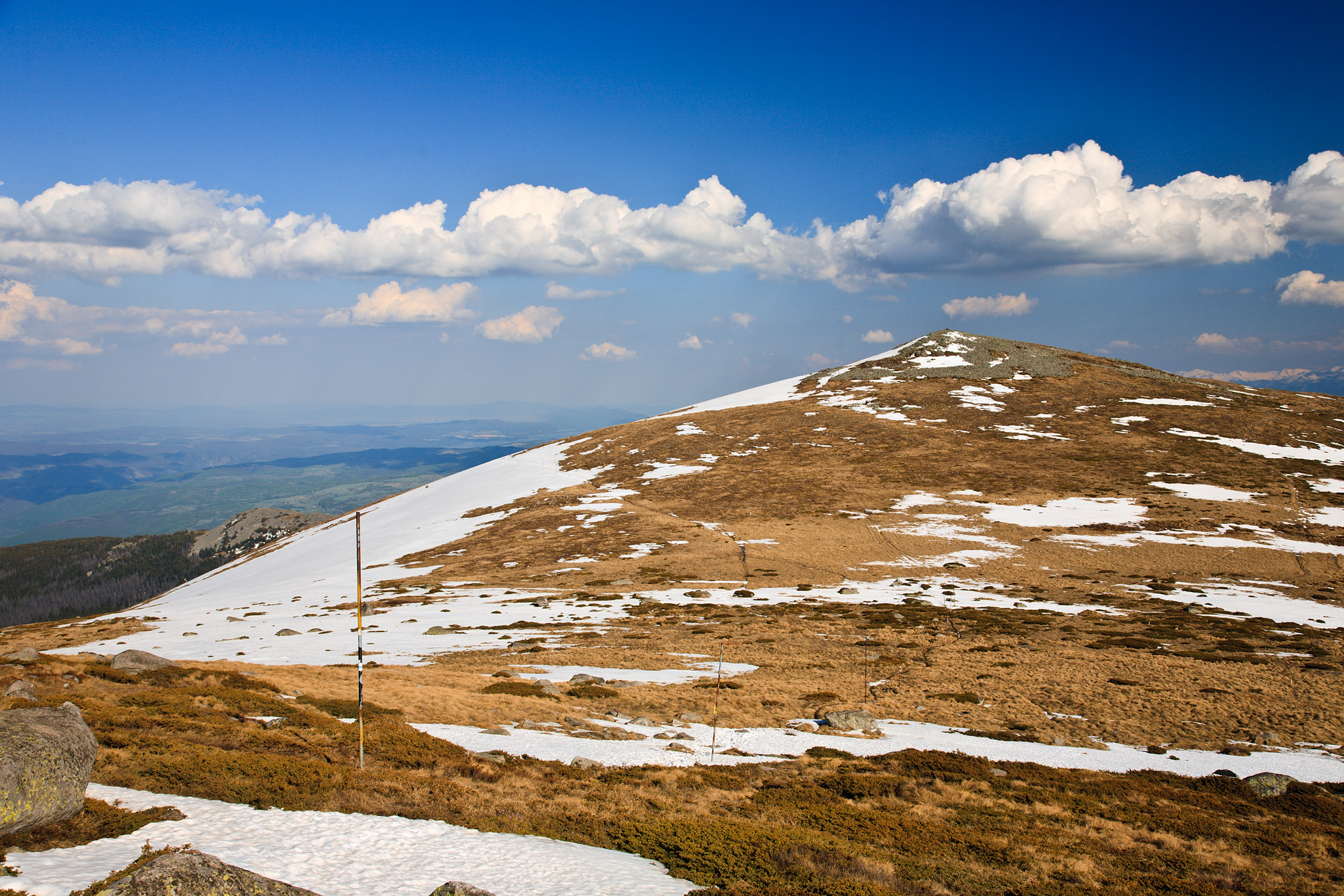 Skoparnik peak in Vitosha mountain, Bulgaria